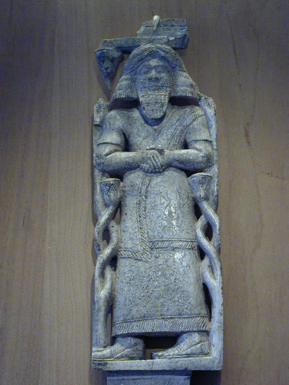 Aramaean king Hazael.[1]